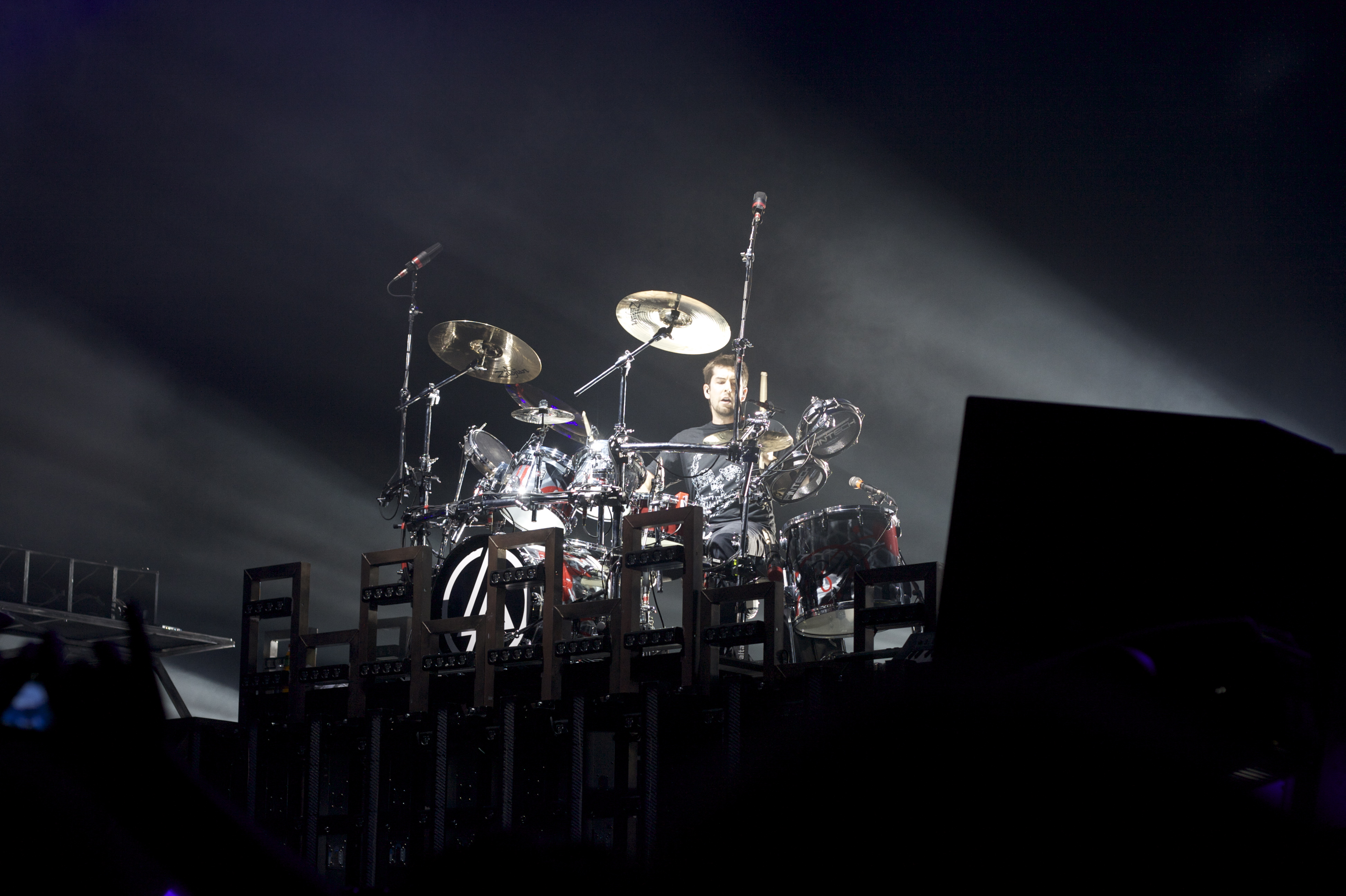 Rob Bourdon of Linkin Park at The Globe Arena in Stockholm. Photo taken with a Canon EOS 400D and Canon EF 50 f/1.8